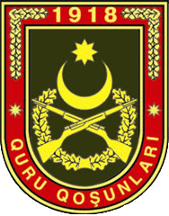 Military insignia of the Azerbaijani Land Forces